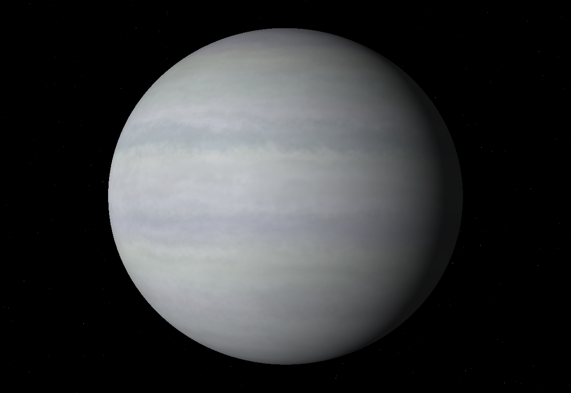 Class II exoplanet on Celestia.